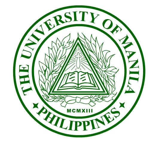 University Seal